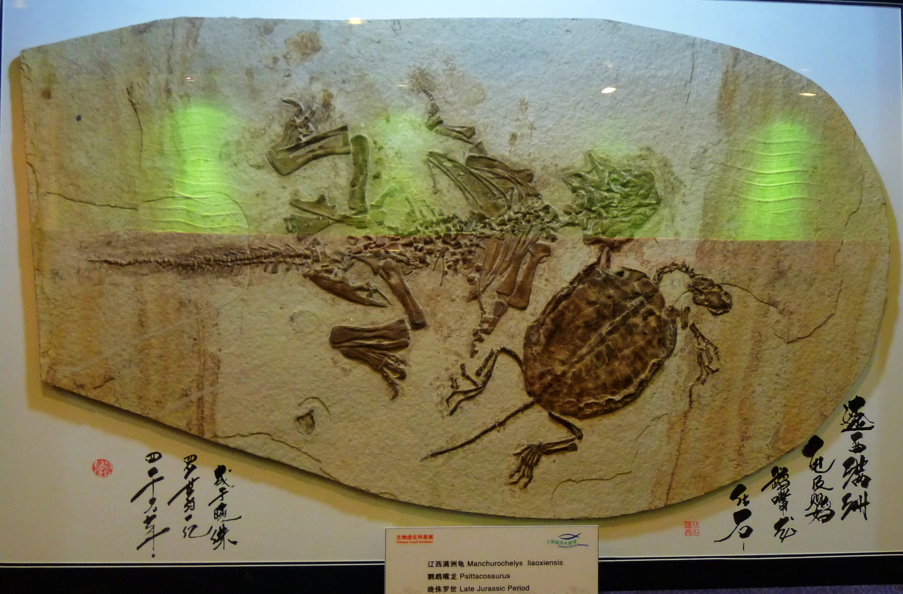 Fossils of the dinosaur Psittacosaurus (left) the turtle Manchurochelys liaoxiensis (right) at the Shanghai Ocean Aquarium